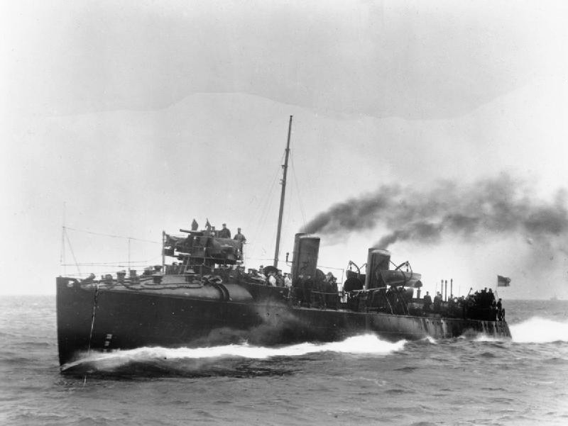 Photograph of British D torpedo class destroyer HMS Fame.